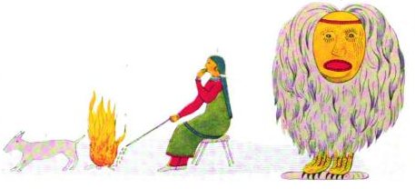 Flying Head defeated by woman roasting acorns.